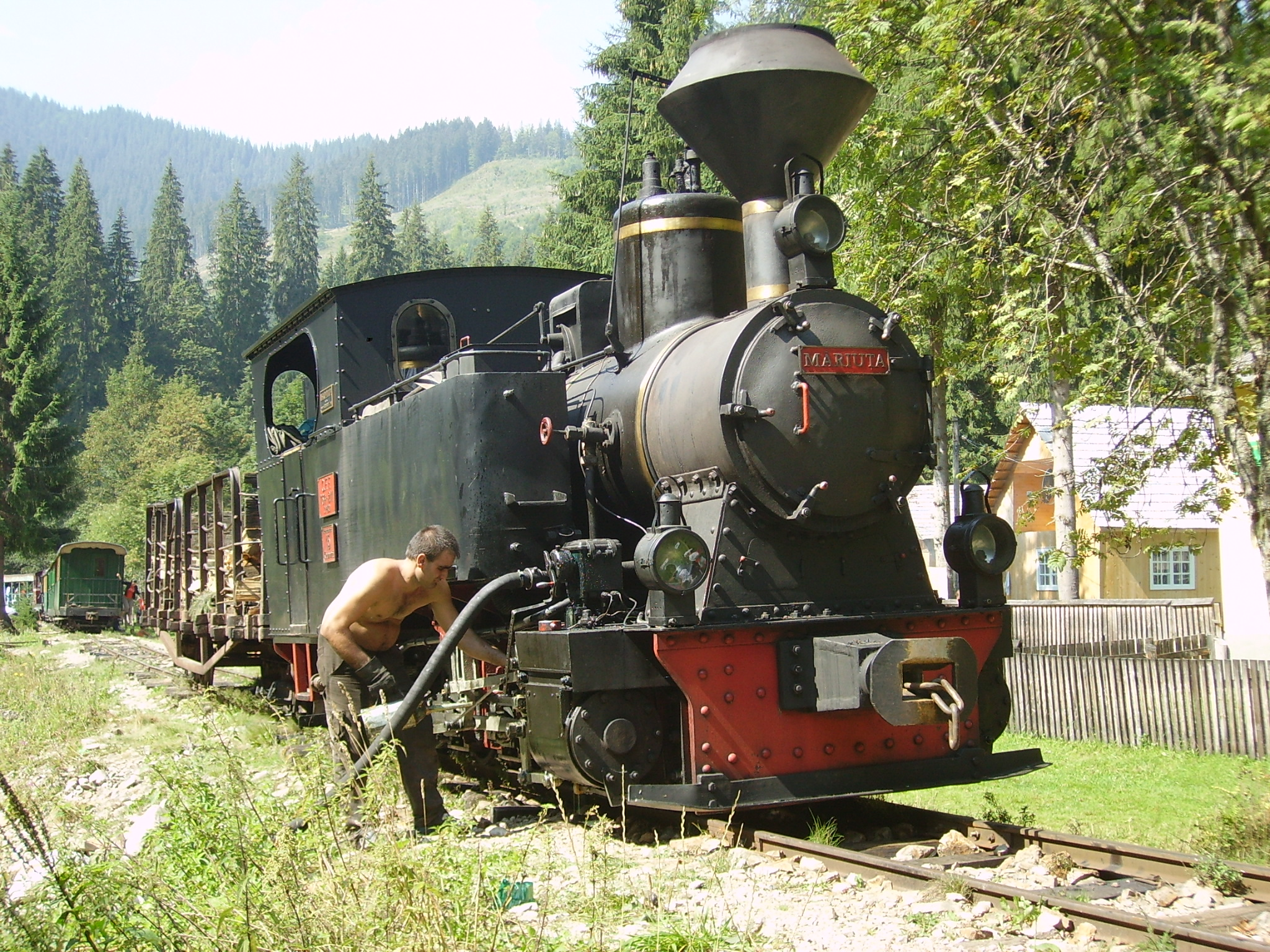 Vasar Valley Mocăniţa, a narrow gauge railway in Romania